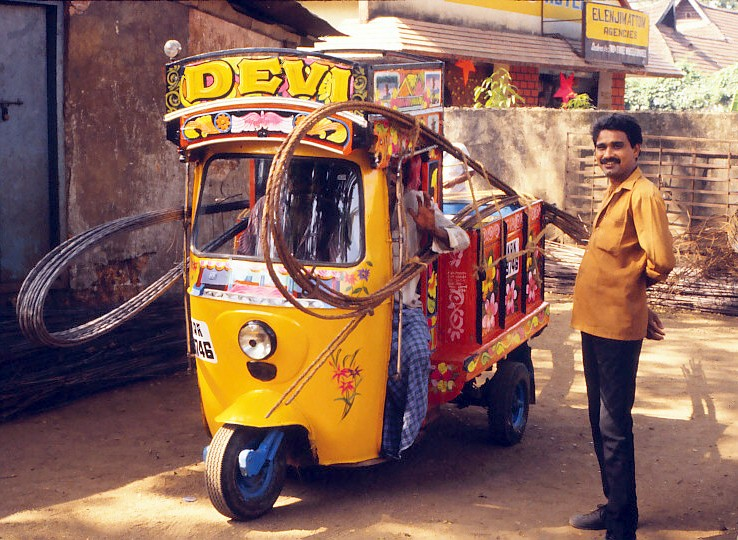 Tricycle